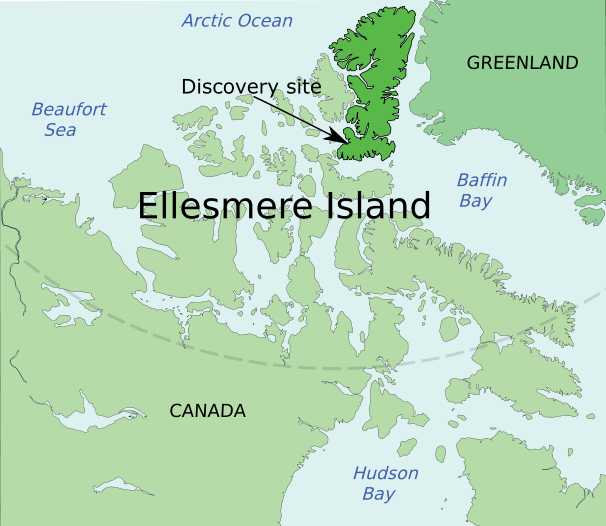 The discovery site of Tiktaalik and Laccognathus embryi fossils on Ellesmere Island. Created based on images from the CIA's World Fact Book.